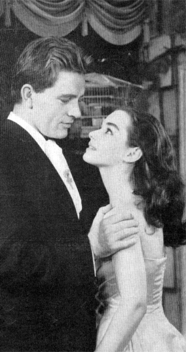 Photo of Richard Burton and Susan Strasberg from the 1957 play Time Remembered. A search for renewal was done at using the title "Playbill". The earliest renewal was for text published in 1960. The article was written by Lorraine Hansberry regarding the work A Raisin in the Sun. There were no earlier renewals for anything published by Playbill. There's no evidence of continuing copyright on the issue.